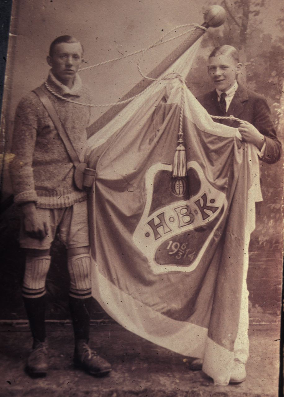 Photo of Charles Tedor Hansson (left) as member of Halmstads BK football team and the clubs first chaiman Axel Winberg (right)